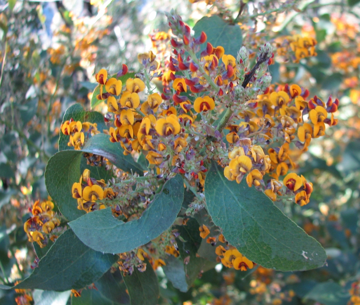 Daviesia latifolia, Mount Buffalo National Park, Victoria, Australia